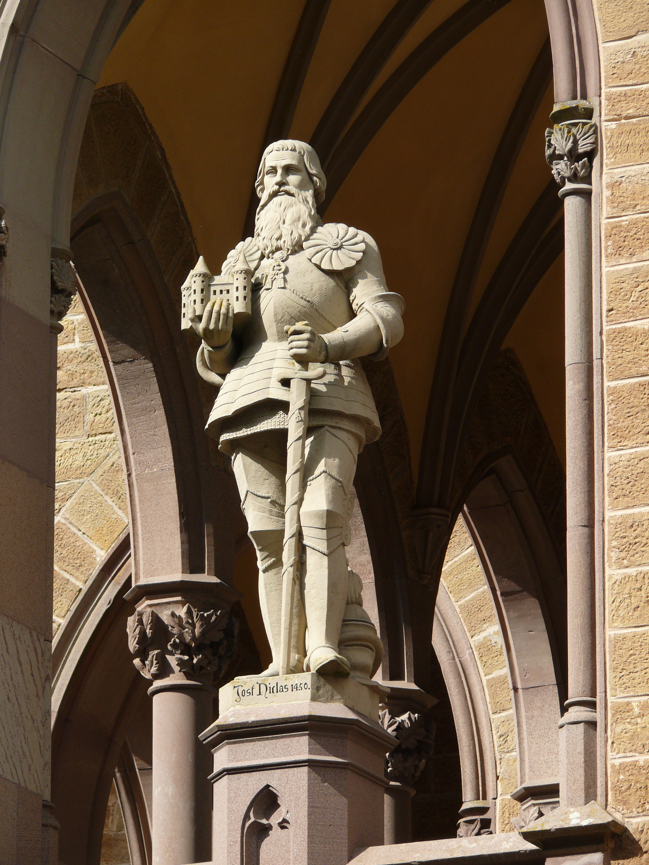 Stoop of the Genealogical Hall (Stammbaumhalle), statue of Jobst Nikolaus von Hohenzoller at Hohenzollern Castle, sculpted by Gustav Willgohs